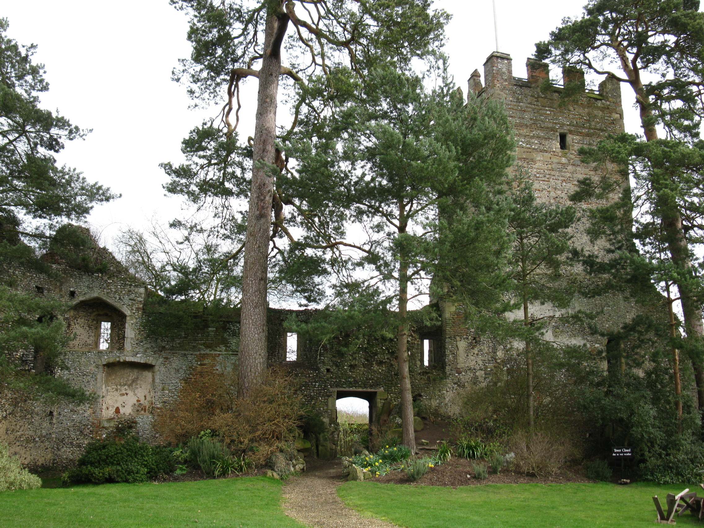 Great Tower, Greys Court, Rotherfield Greys, Oxfordshire